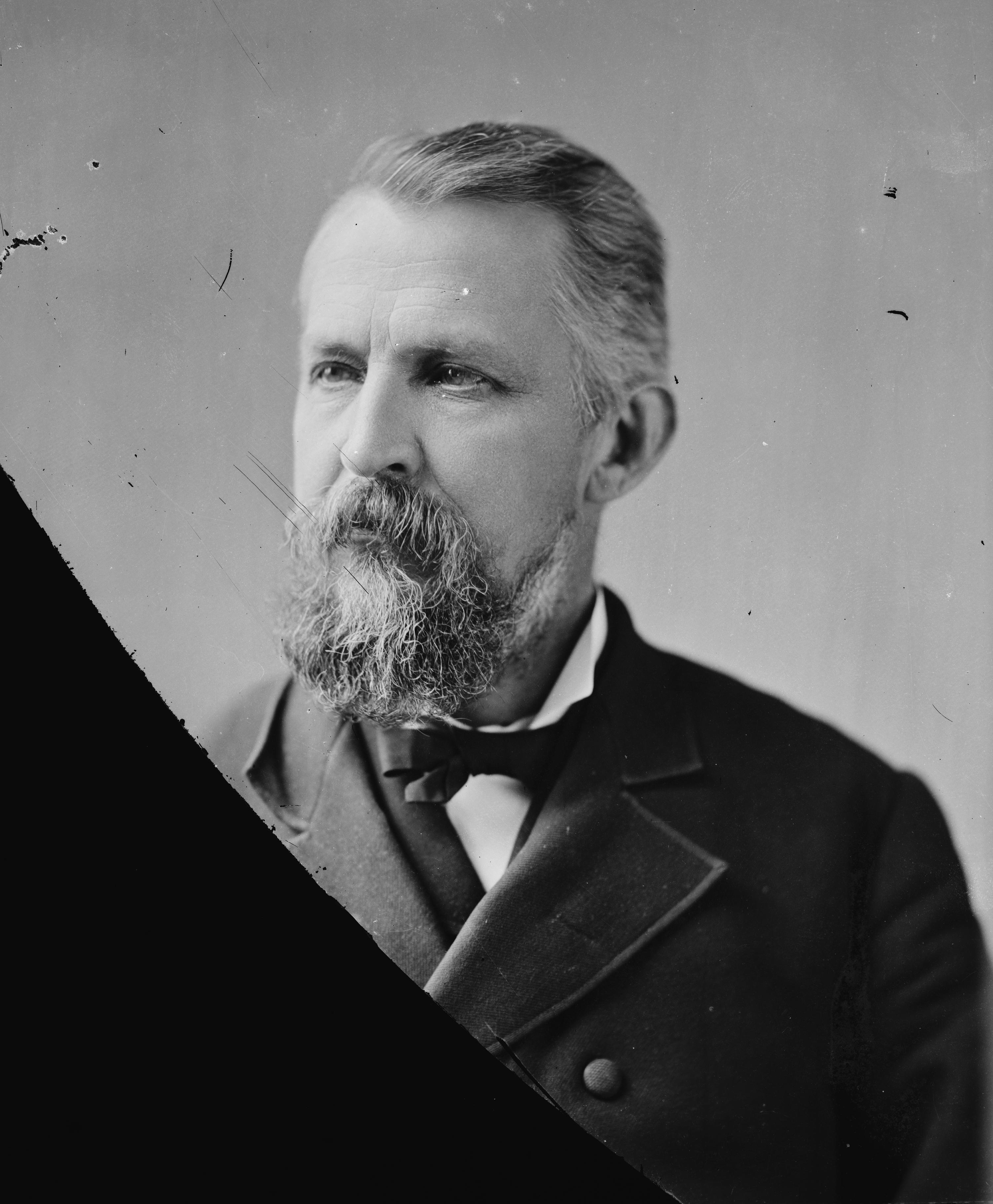 John Randolph Tucker (1823-1897). Library of Congress description: "Hon. John Randolph Tucker of VA"